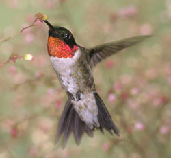 Ruby-throated hummingbird public domain USFWA